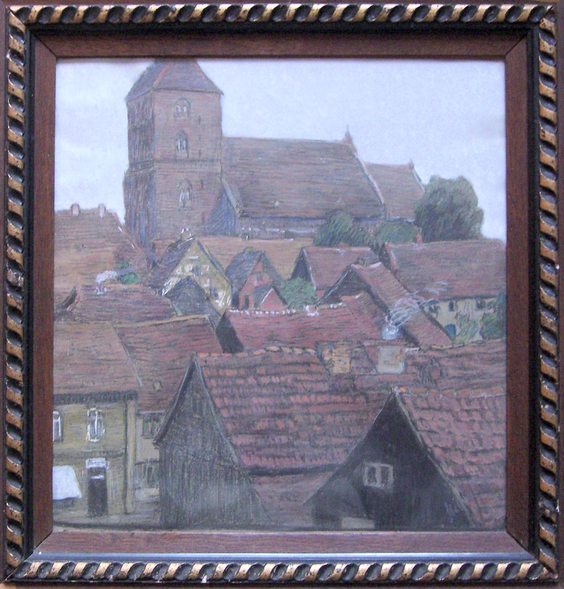 view to St.-Mary-Church in Plau am See by Helene Dolberg